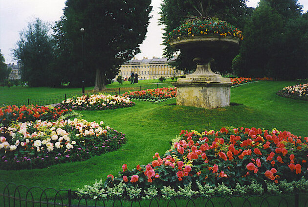 Victoria Park, Bath. In the distance is the Royal Crescent.